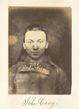 Mugshot of Irish poet John Keegan Casey (1846-1870), convict to Australia who wrote a detailed account of the journey on the way. It is part of the Mountjoy Prison photographic collection, which was photographed by Thomas Larcom (1801-1879). Since Larcom died over 100 years ago, this photograph is in the public domain worldwide.